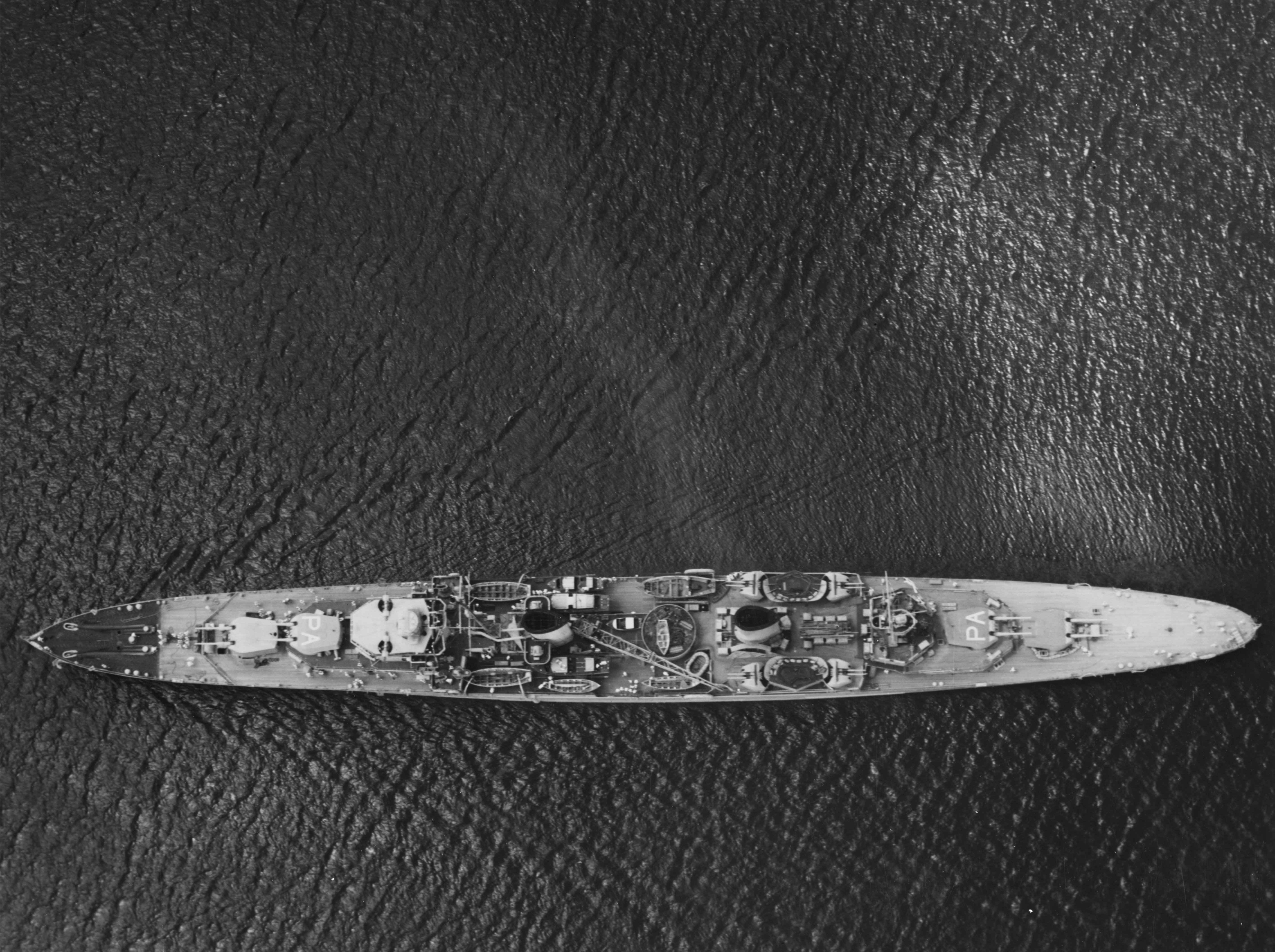 The Royal Australian Navy light cruiser HMAS Perth (D29) in Gatun Lake, Panama Canal, 2 March 1940. Note the aircraft identification symbols on the turret tops.